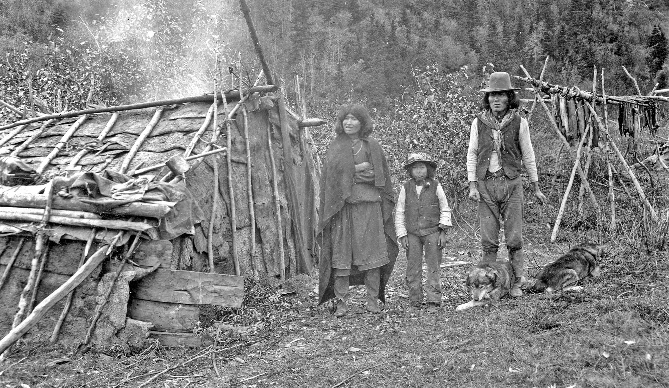 Image of Ahtna family one mile north of the village of Taral